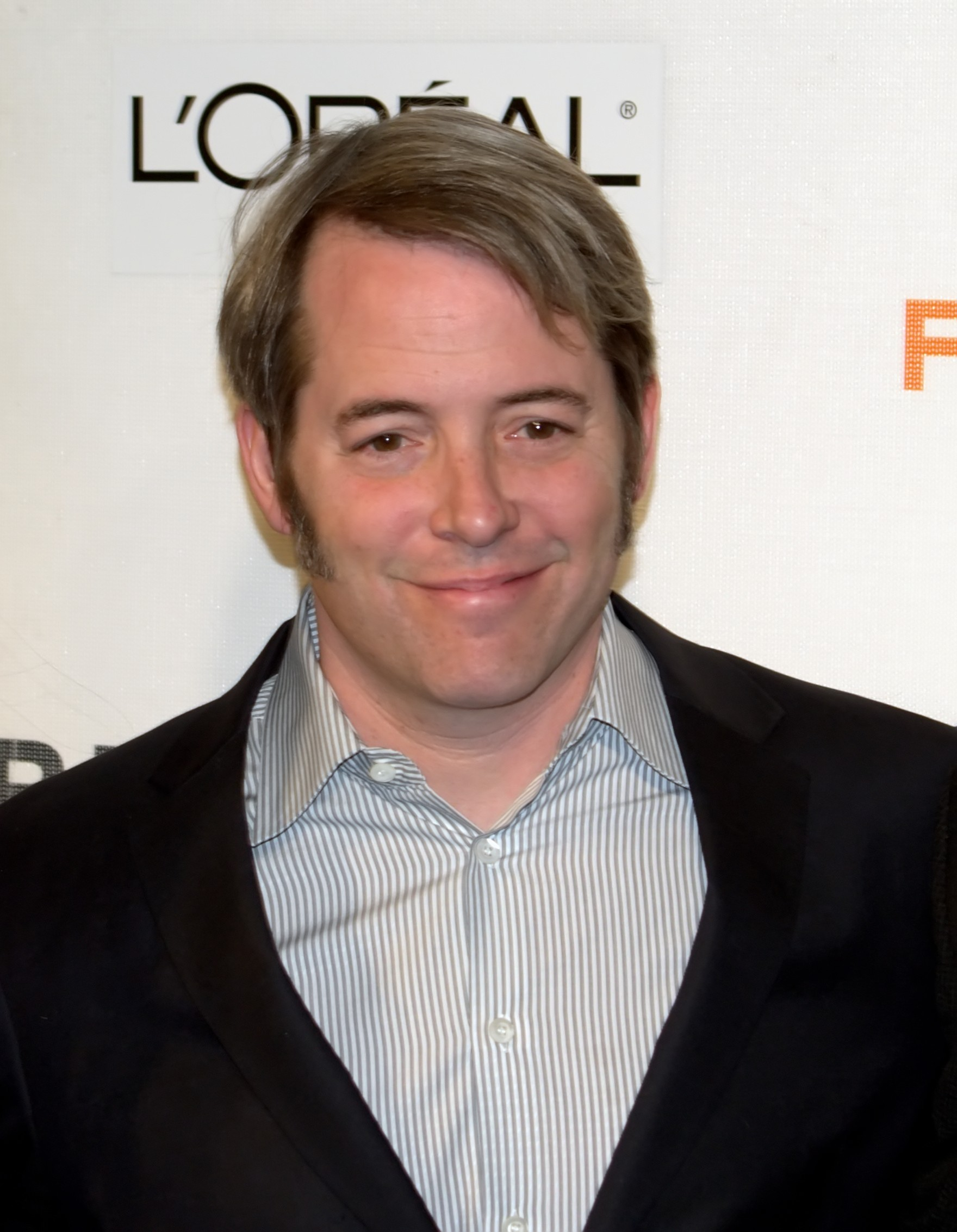 Matthew Broderick at the 2009 Tribeca Film Festival for the premiere of Wonderful World. Photographer's blog post about these photos.